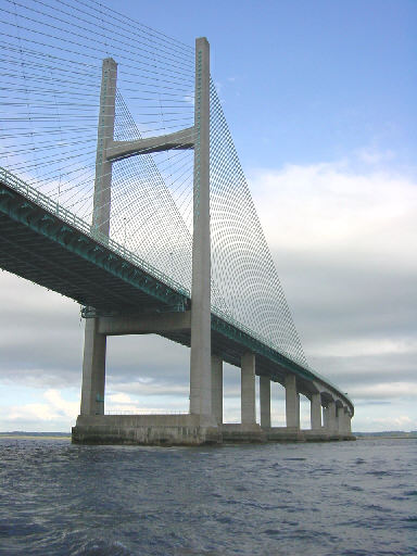 Second Severn Bridge. The second motorway bridge across the Severn estuary, between Caldicot and Severn Beach, looking east from the navigation channel.